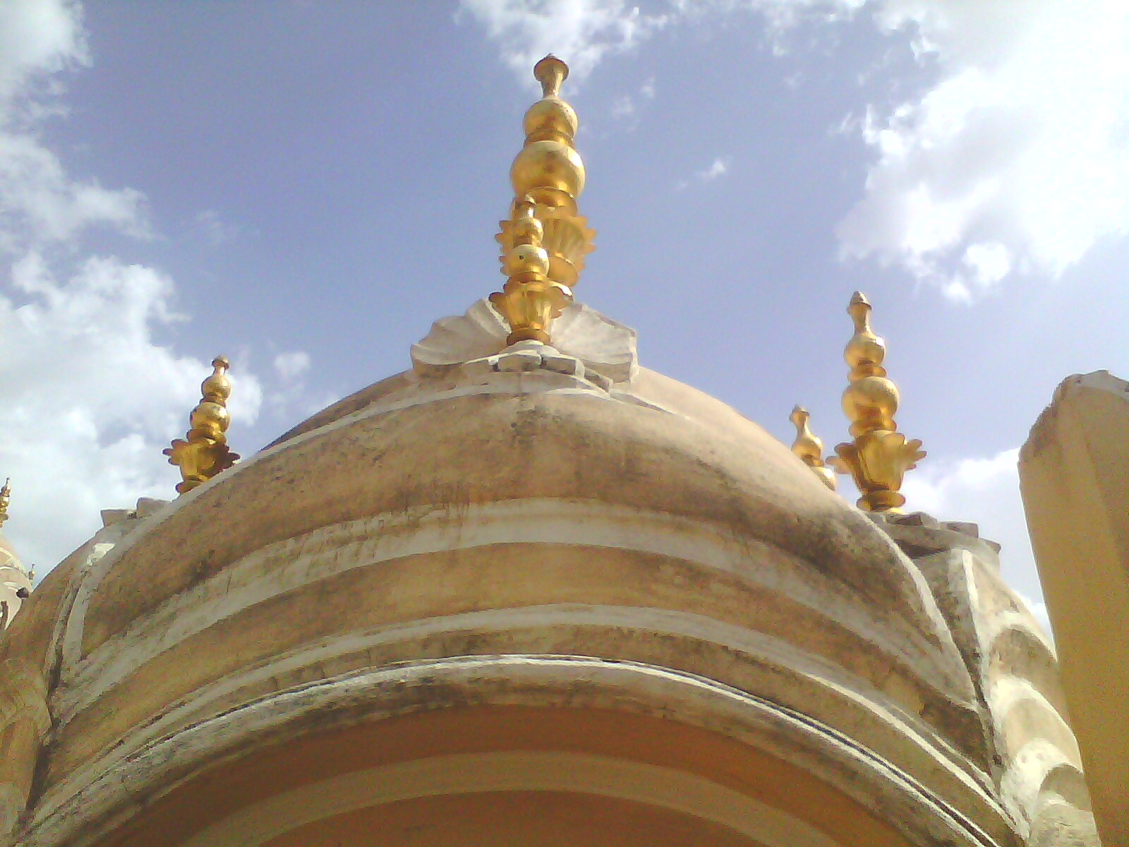 Top of the Hawa Mahal, Jaipur